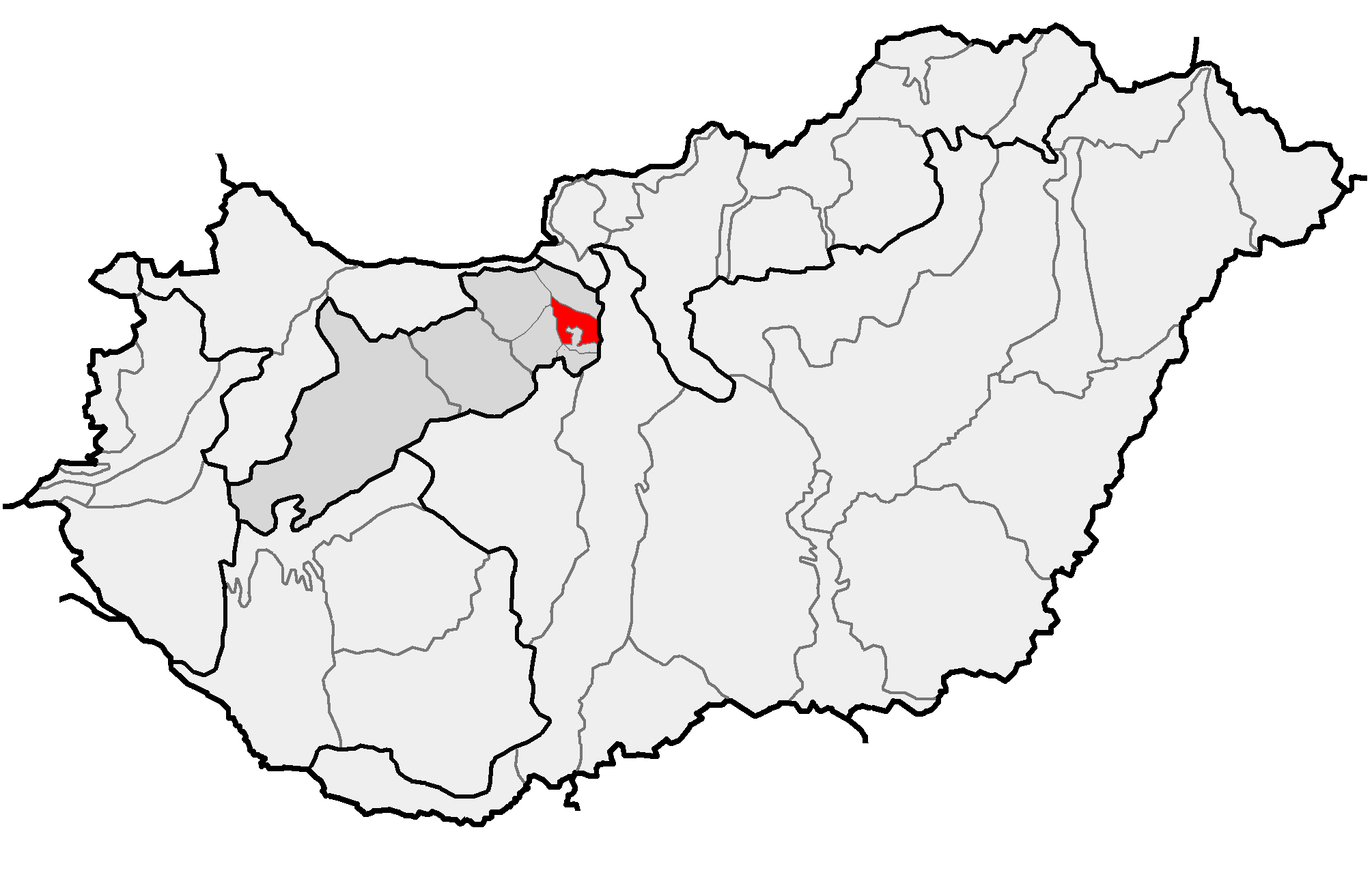 Location of geographical microregion of Budai-hegyek (red) and macroregion of Dunántúli-középhegység (gray) within subdivisions of Hungary.